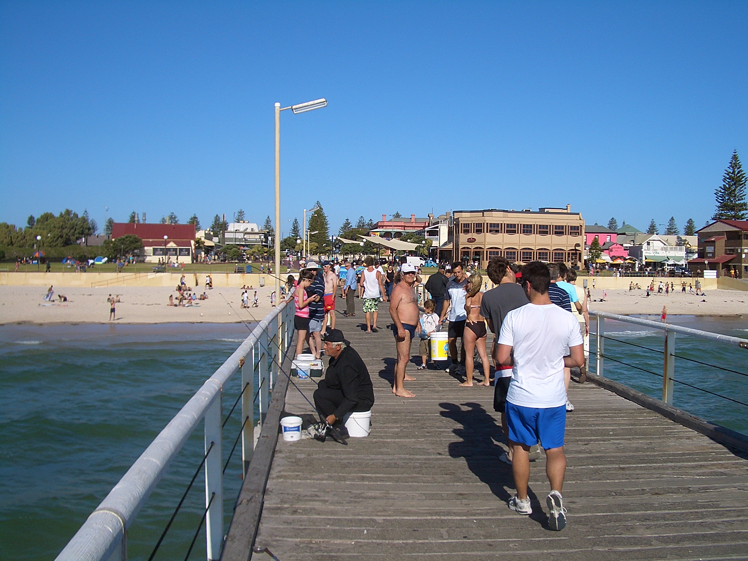 On the pier at Henley Beach (eastern suburb of Adelaide)